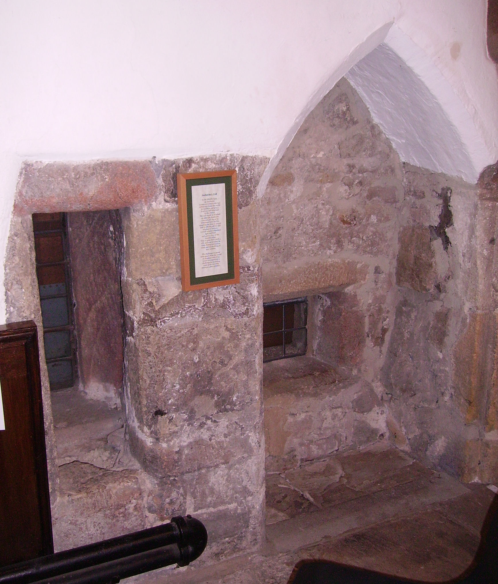 View of Anchorite's cell in Holy Trinity Church Skipton, United Kingdom